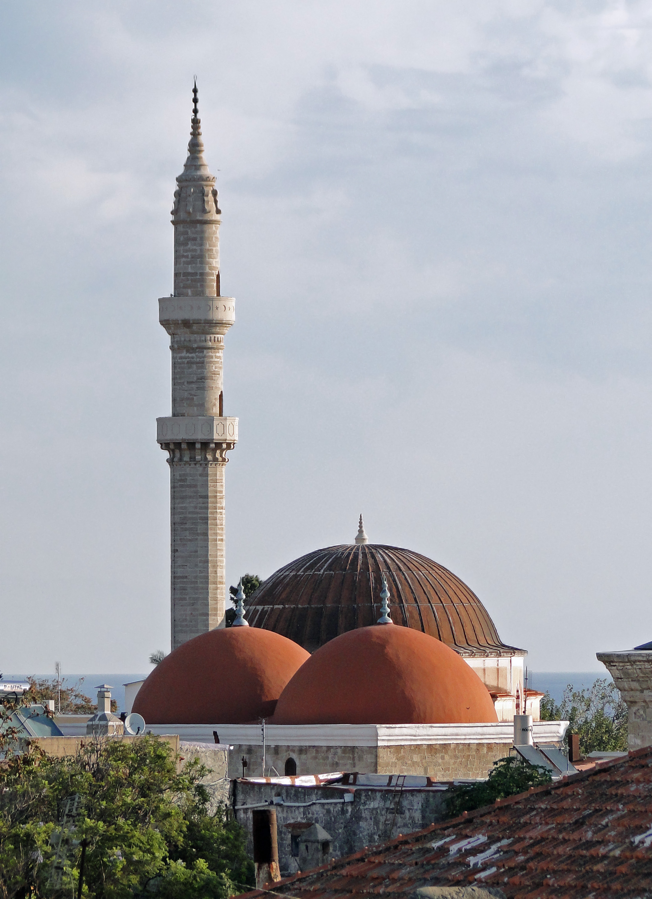 Suleiman Mosque in the Medival City of Rhodes, Greece